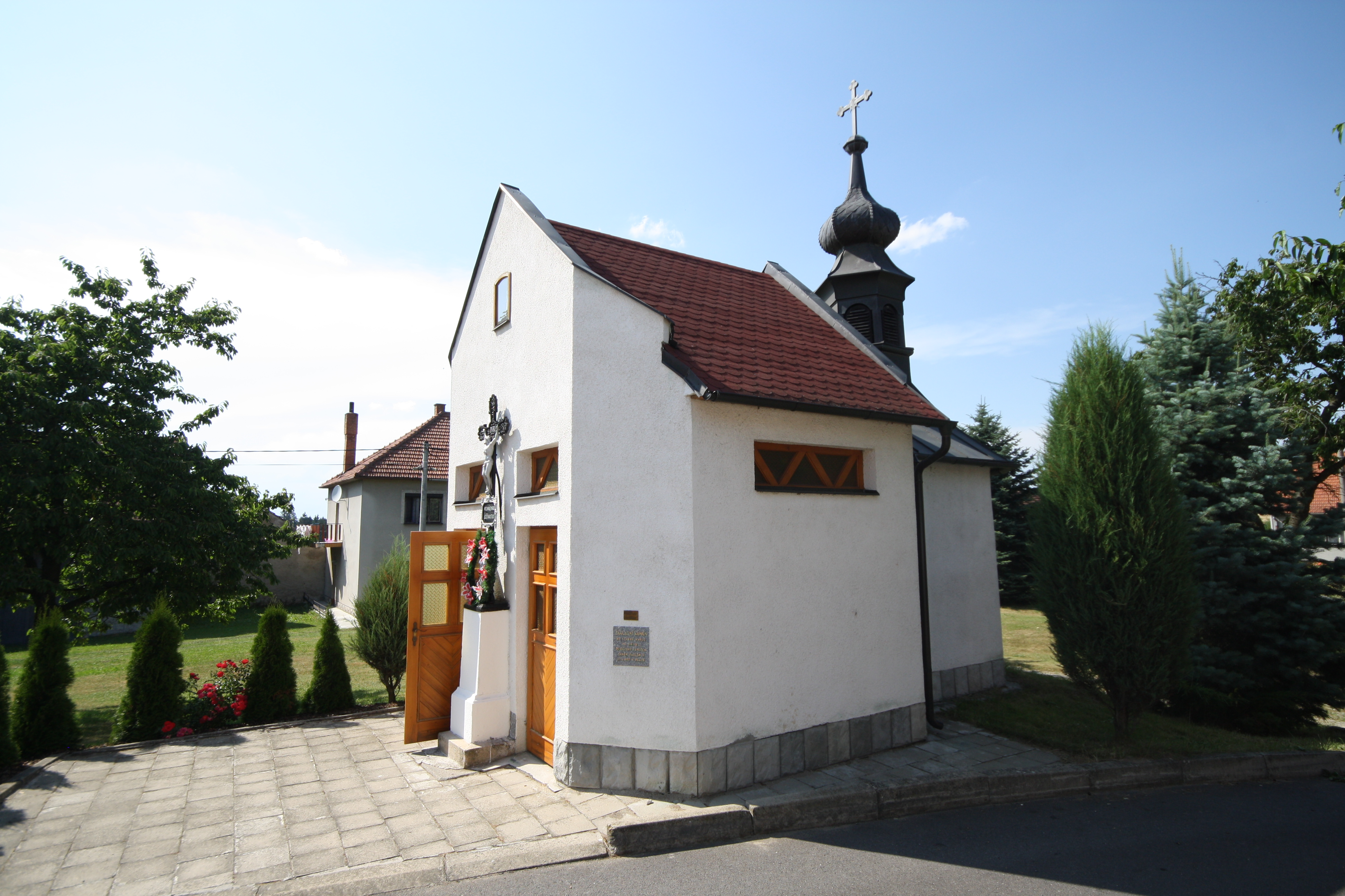 Chapel of Heart of Saint Mary in Smrk, Třebíč District.